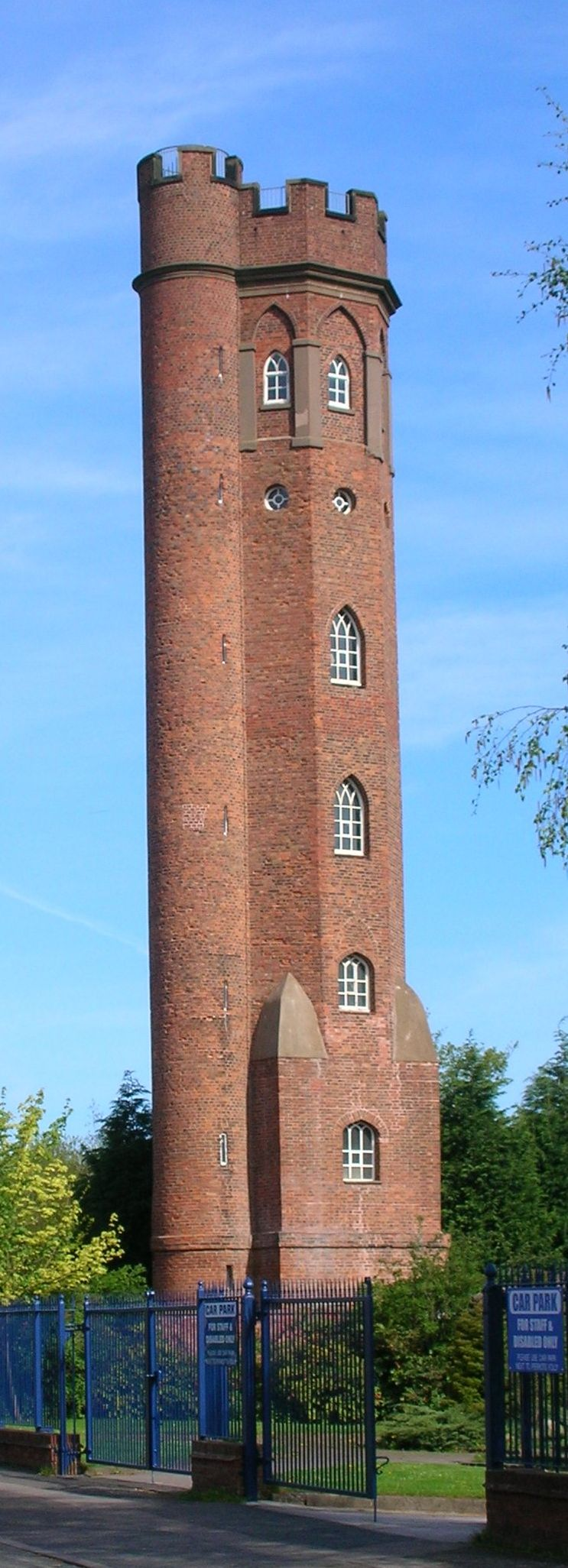 Crop by Andy Mabbett of File:Perrotts Folly.jpg to emphasise height and lose clutter. Original on Commons. Photographed 6th May 2006 at 0945 by Oosoom Talk to me